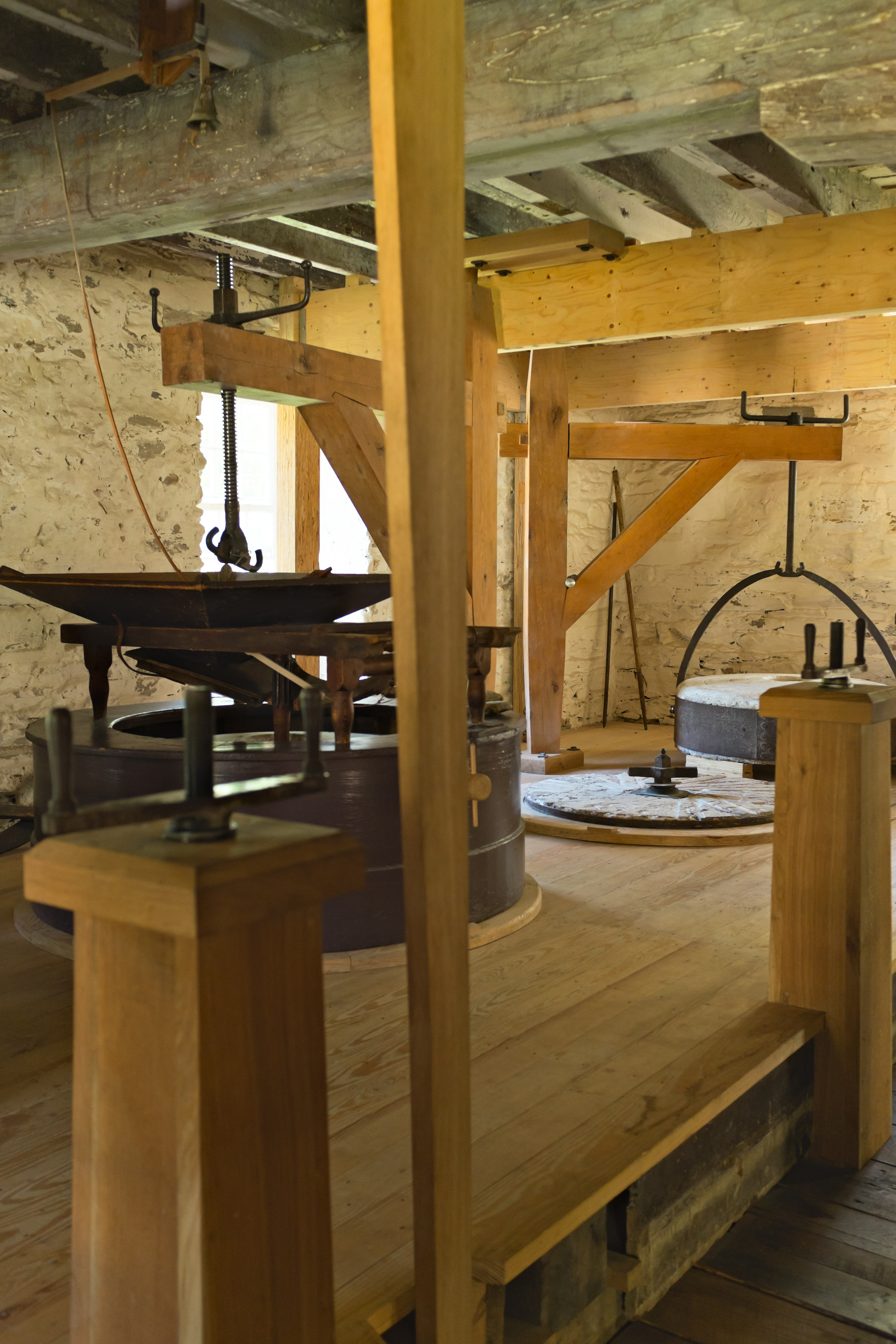 Millstones at Peirce mill (grist mill). Note that in the foreground, the mechanism (the wooden "pillar" which is about a meter high with the screw adjuster on it) is for adjusting the height of the millstones while grinding, and the wooden board running vertically through the middle of the photograph is to open and shut the sluice which feeds water to the water wheel.